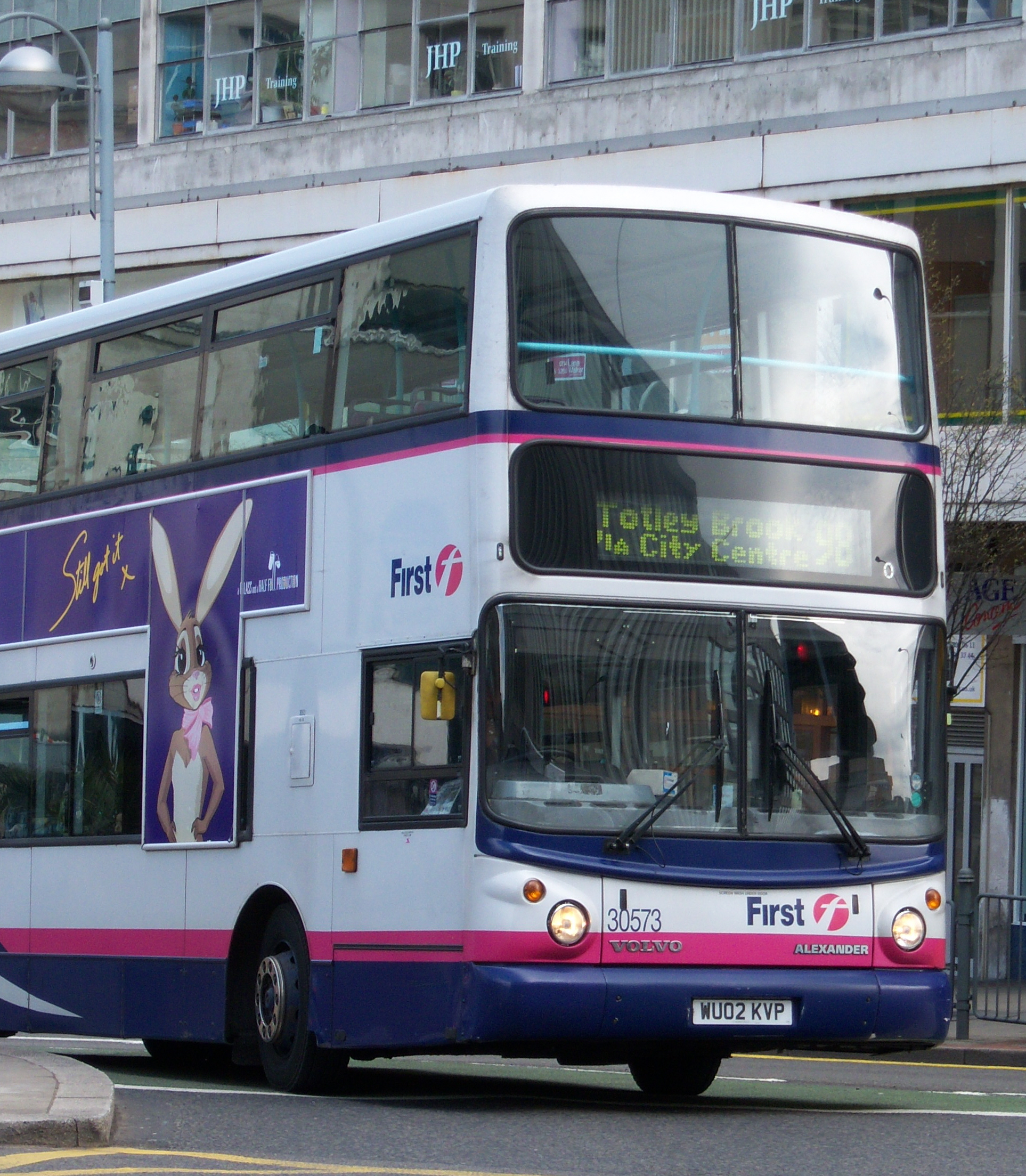 City FirstGroup buses in Sheffield